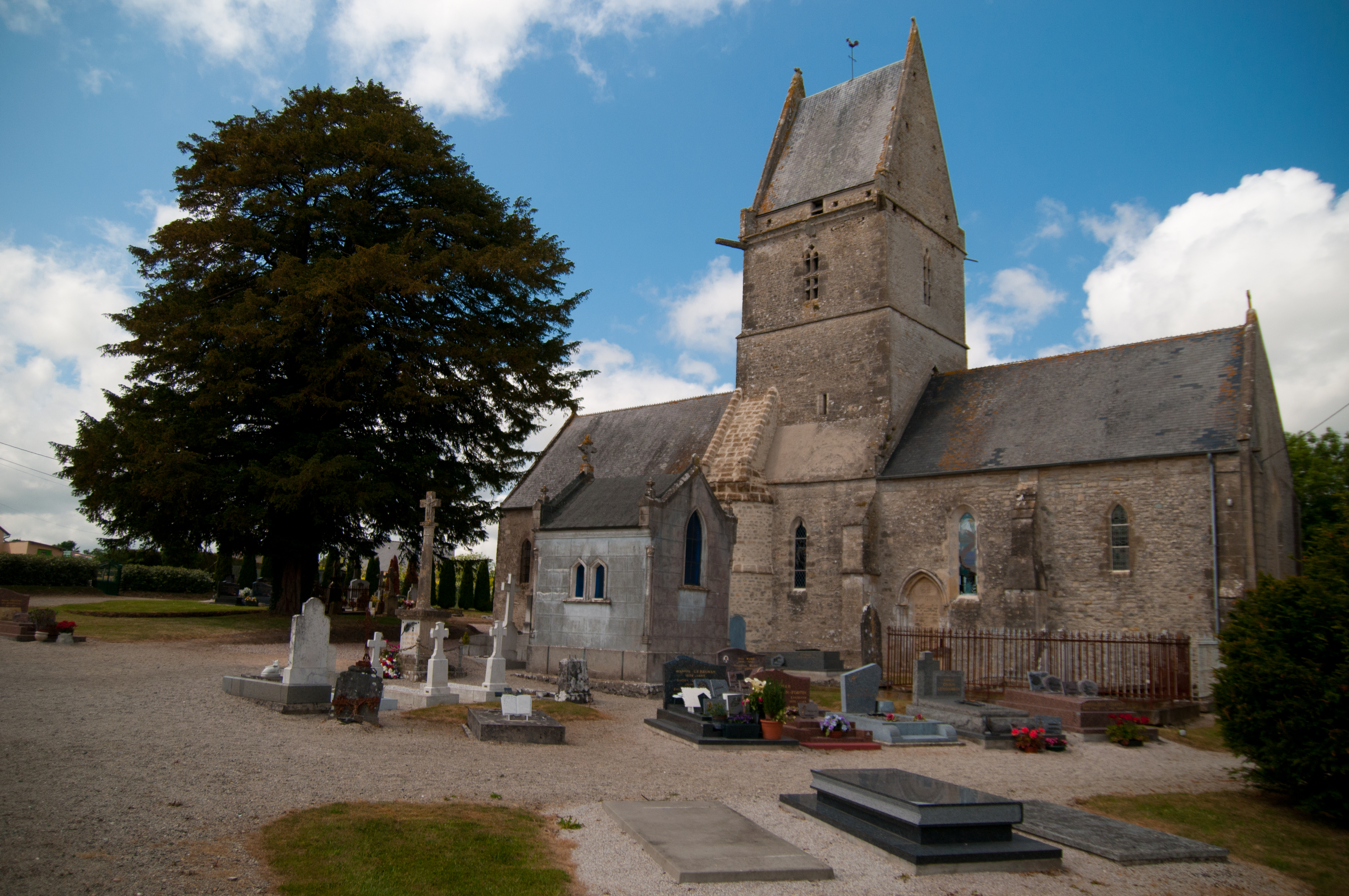 Normandy '10: Angoville-au-Plain church